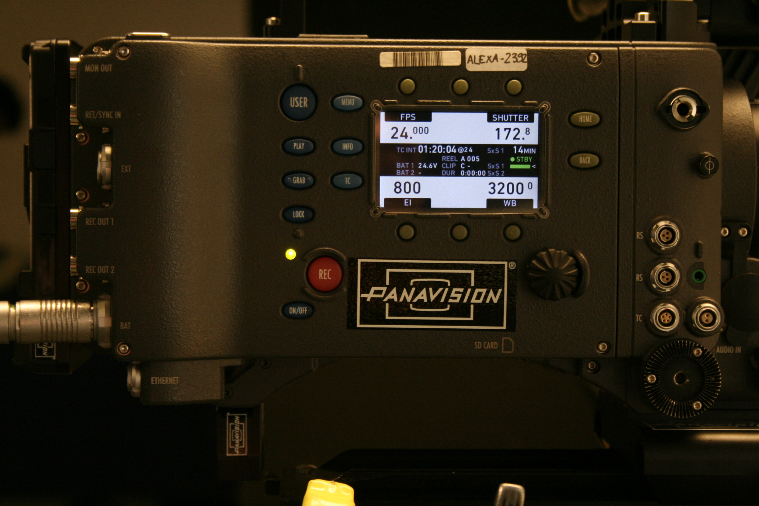 Menu view of digital camera Alexa EV from german maker Arri.